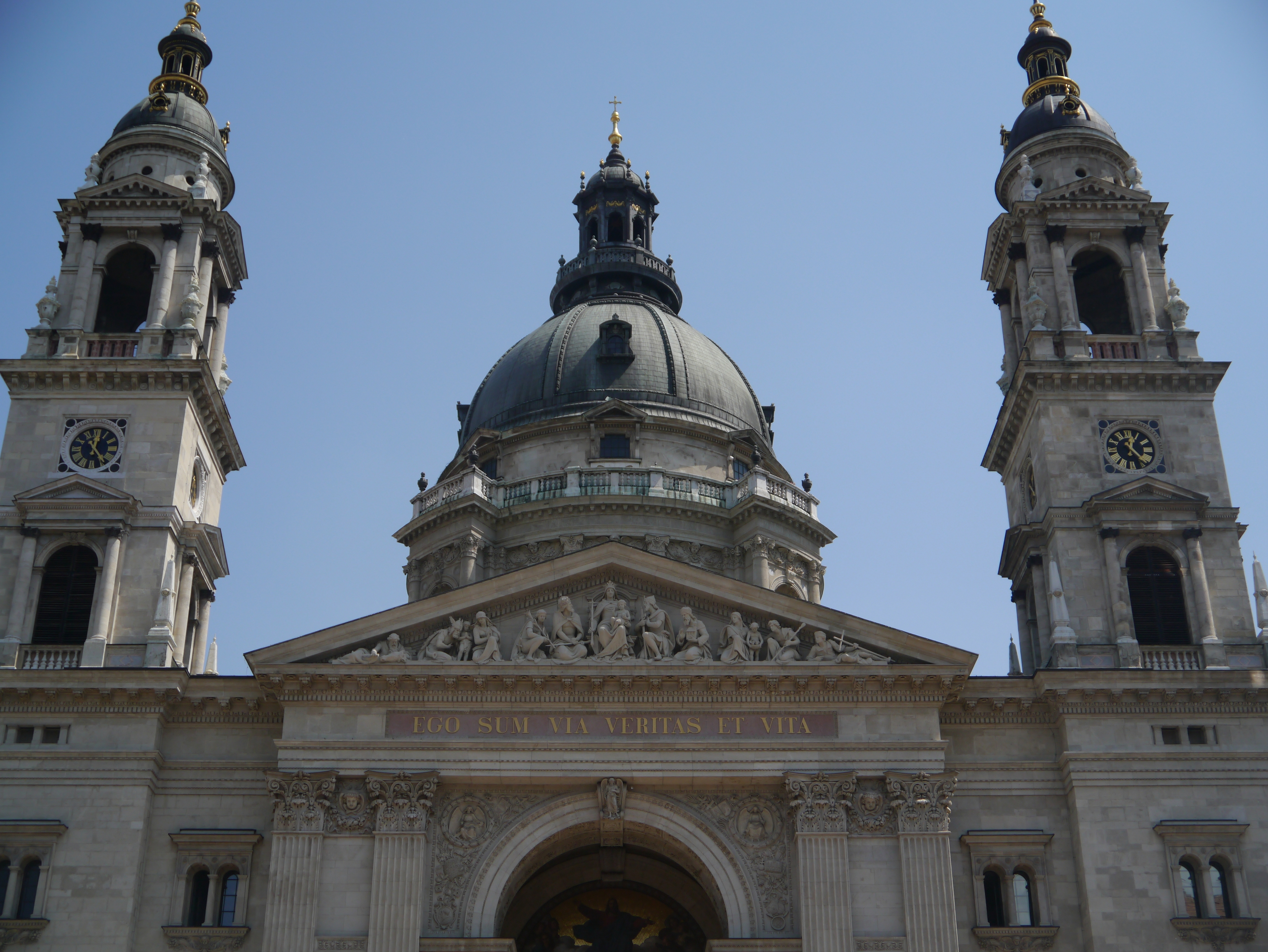 Facade of the Basilica St. Stephen, Budapest, Northern Hungary